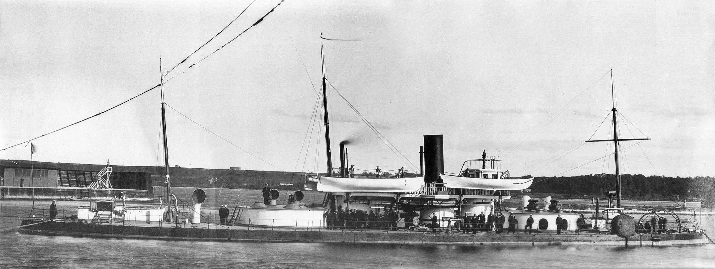 Twin turret armoured boat Charodeika.